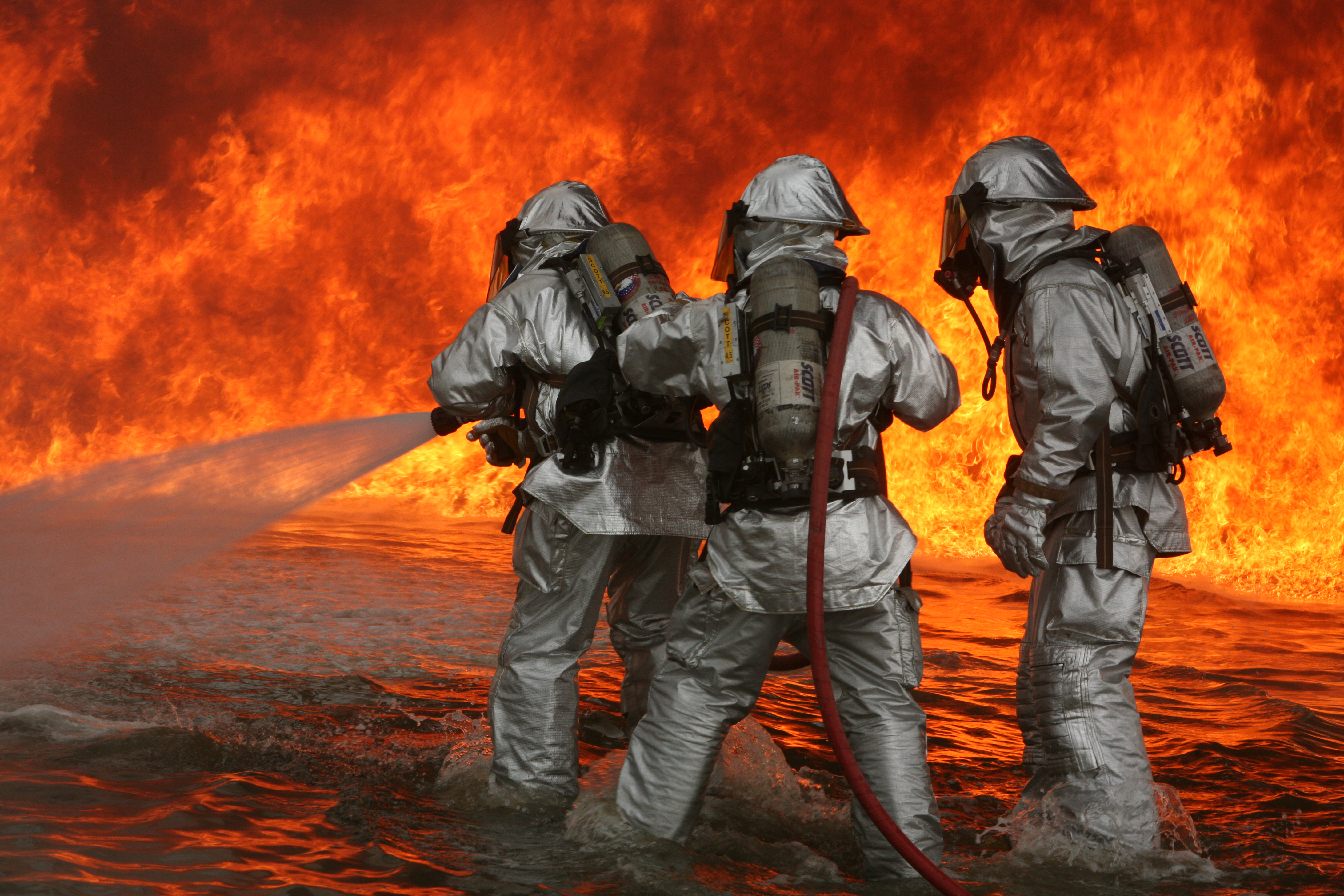 Aircraft Rescue Firefighting Marines aboard Marine Corps Air Station Miramar begin to combat fires during a simulated fire exercise at the ARFF Training Pit here. Constant communication helped them put out the fires as safely and quickly as possible June 13-14.